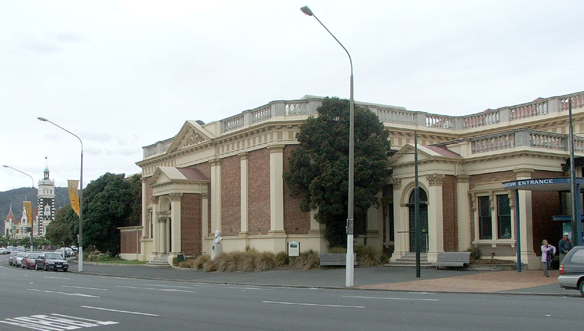 Otago Settlers Museum, Dunedin, New Zealand, November 2006